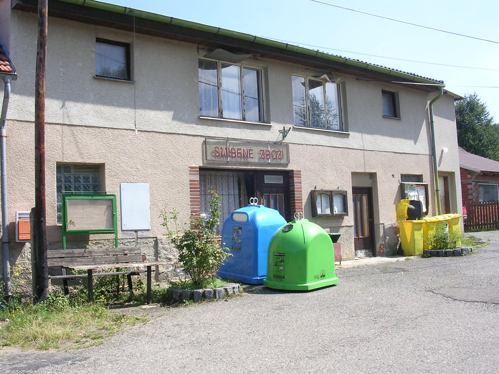 Sedlčany-Oříkov, Příbram District, Central Bohemian Region, the Czech Republic. A shop and sorted waste containers.